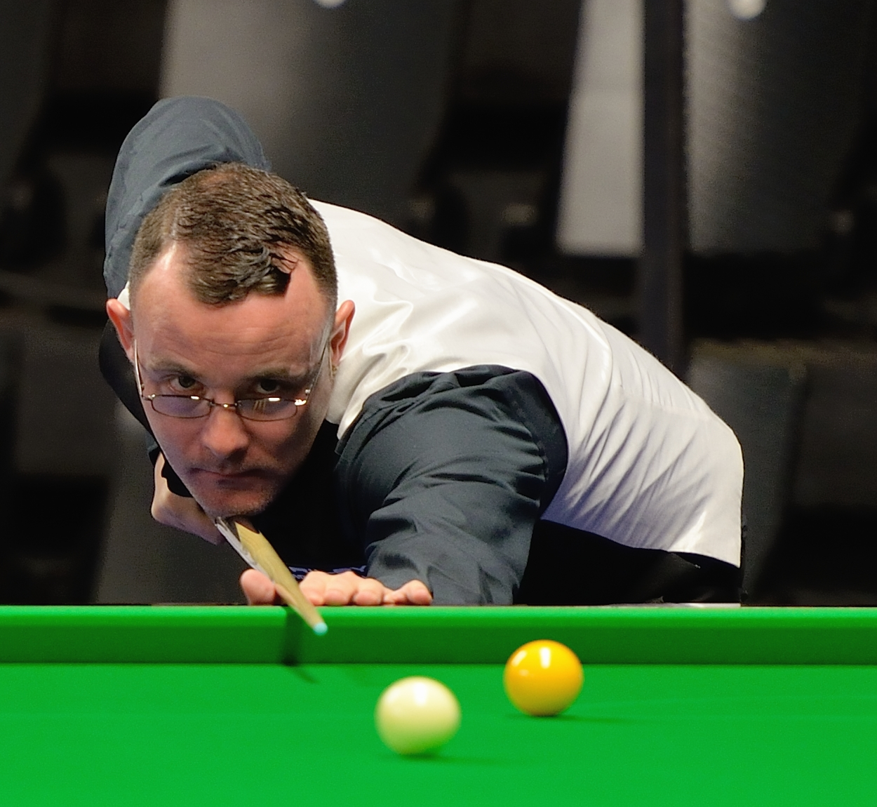 Picture taken in Berlin during the Snooker German Masters in 2015. Martin Gould.